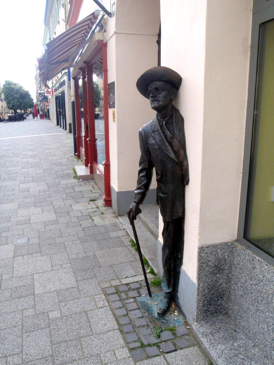 Szombathely Main Square James Joyce